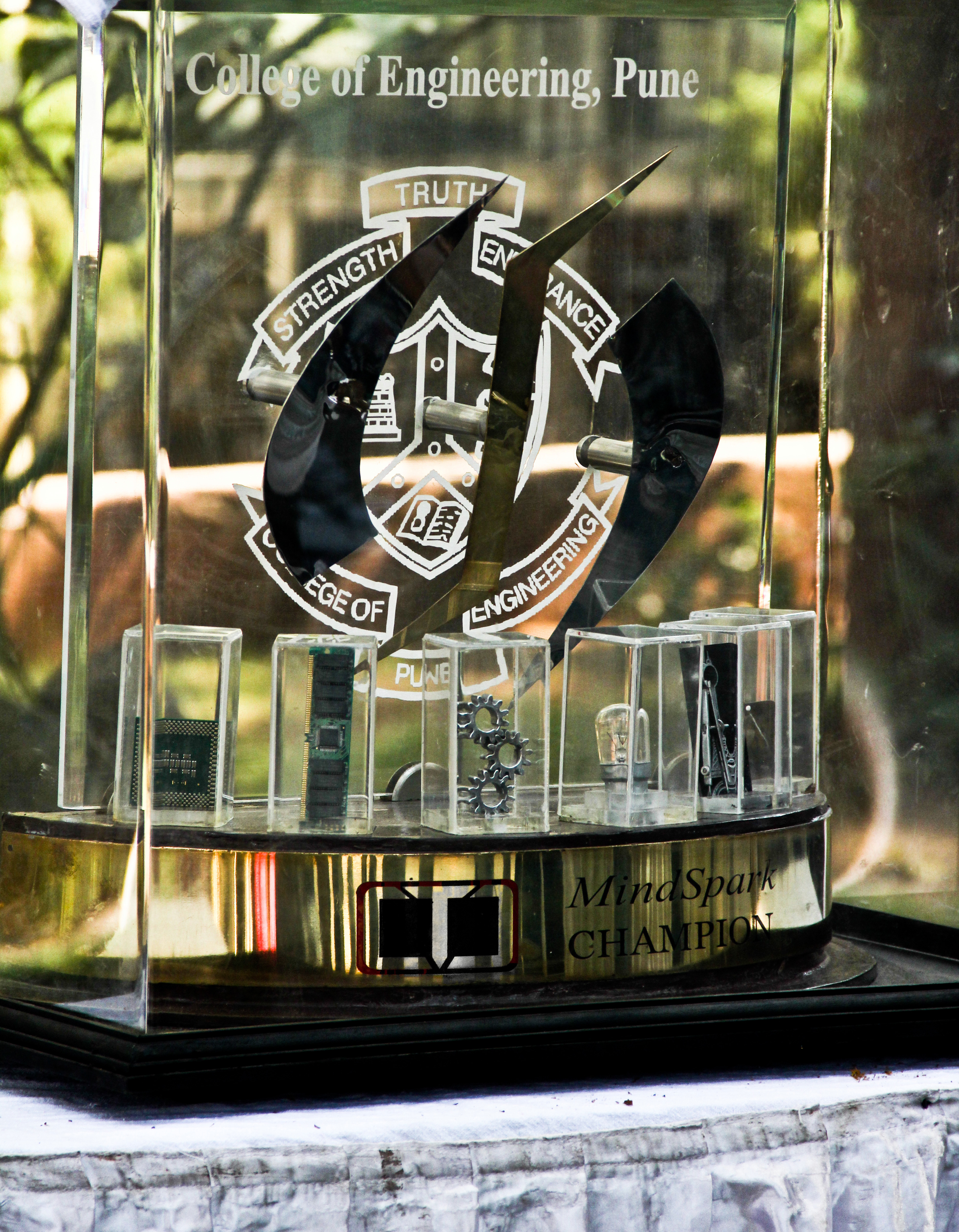 The the Mind-Spark trophy, awarded to the winner of the competition.